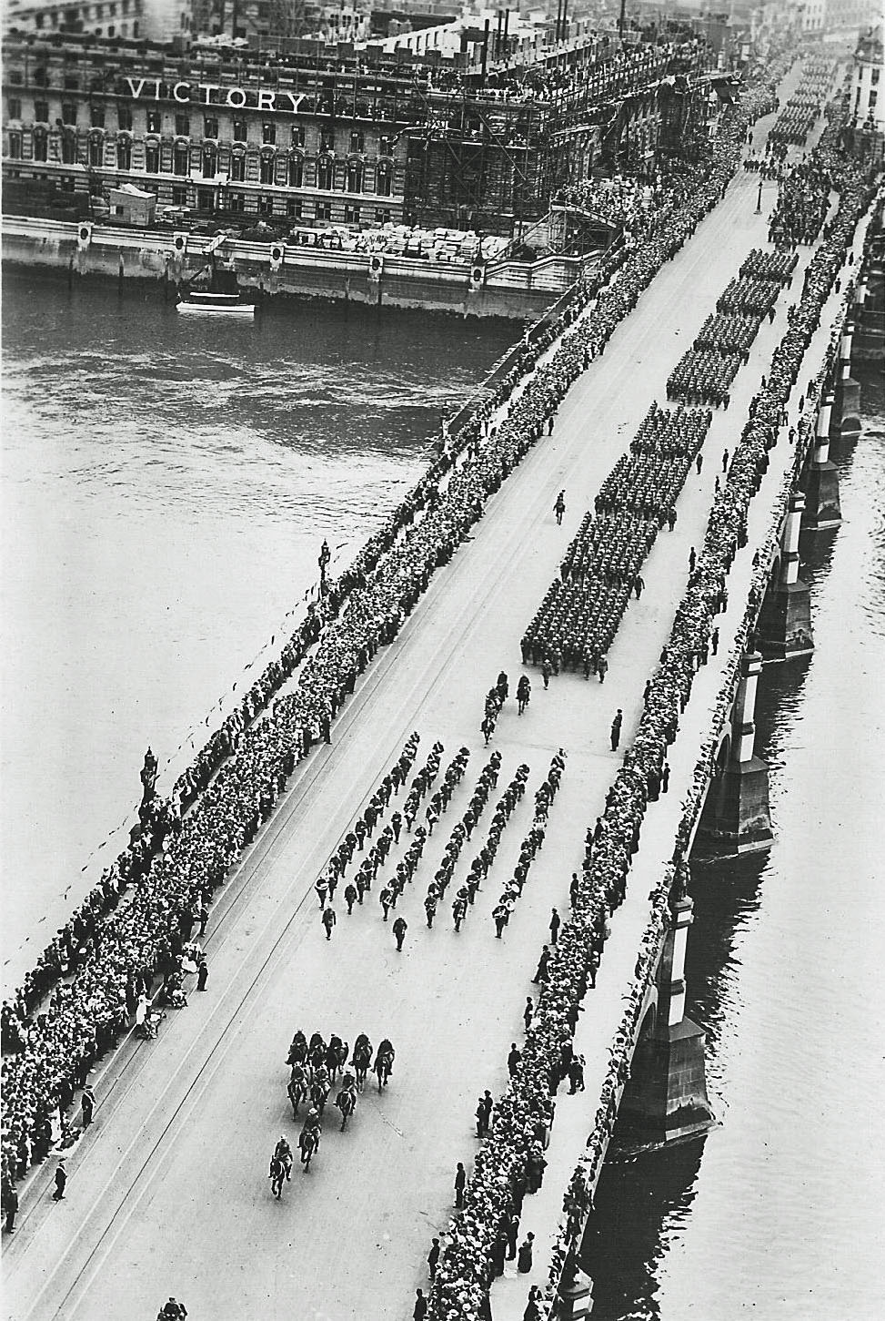 This is Saturday 19th July 1919 and contingents of Military units are taking part in the 'Peace Day' parade through central London. This shot of Westminster Bridge was taken from Big Ben and shows the partly built County Hall top left. Original caption: “Victory march of the Allied troops in London. July 19th, 1919. The procession crossing Westminster Bridge.”